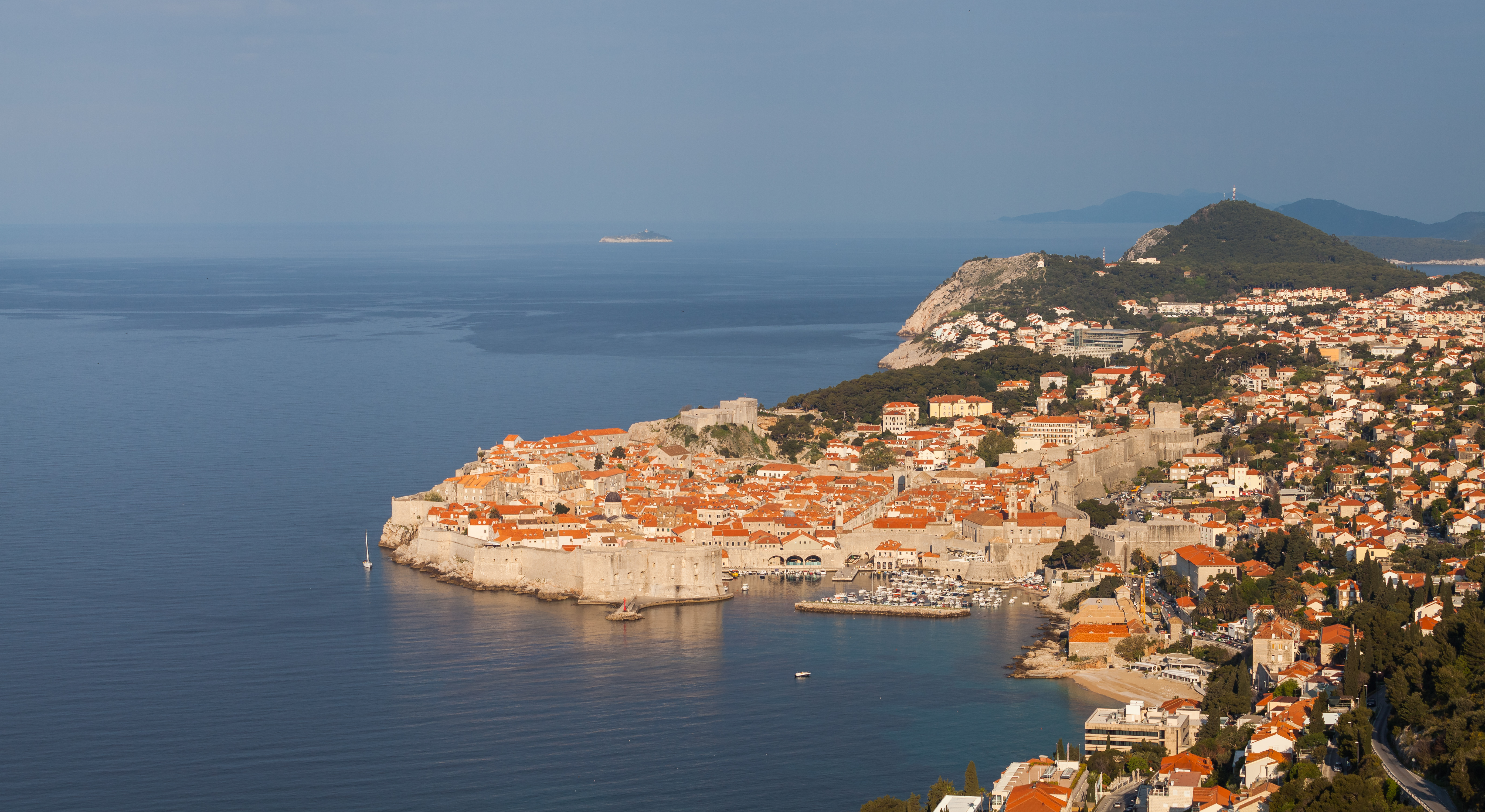 Panoramic view of the old city of Dubrovnik, Croatia